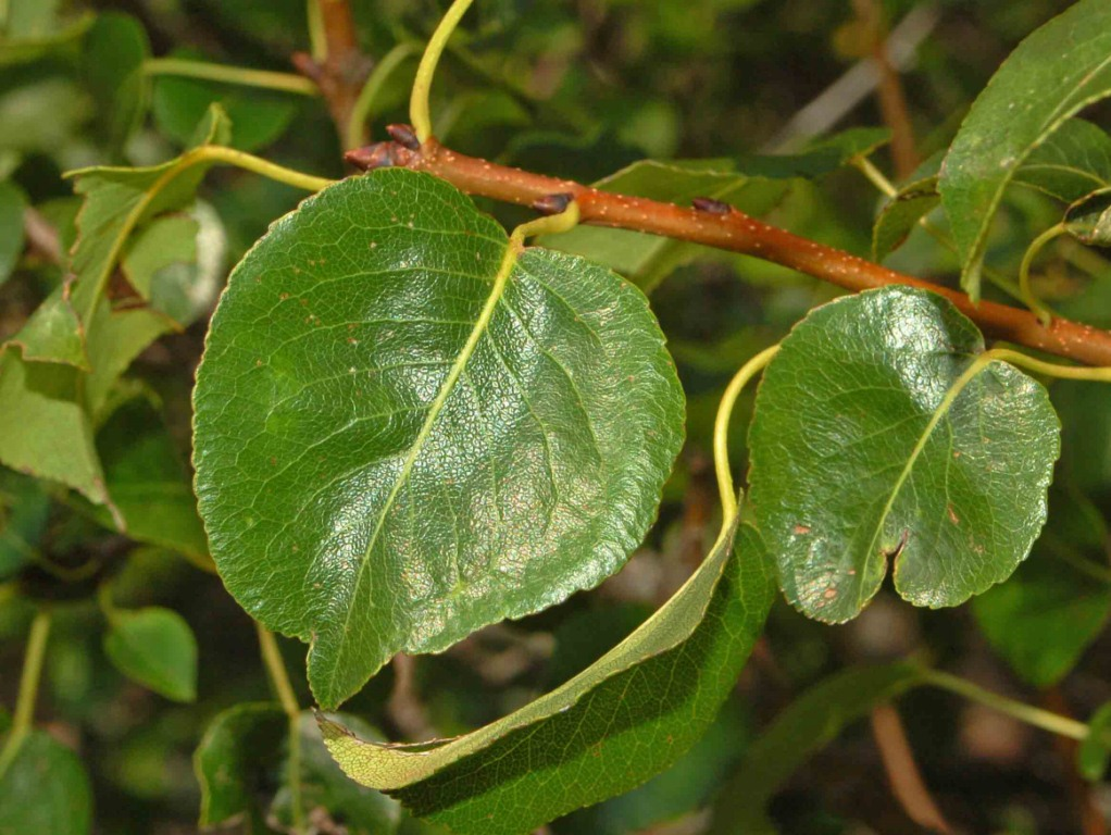 Pyrus pyraster - Parco dell'Antola, Genova, Italy